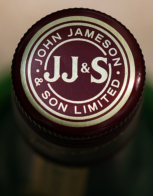 Logo of Jameson & Son Limited